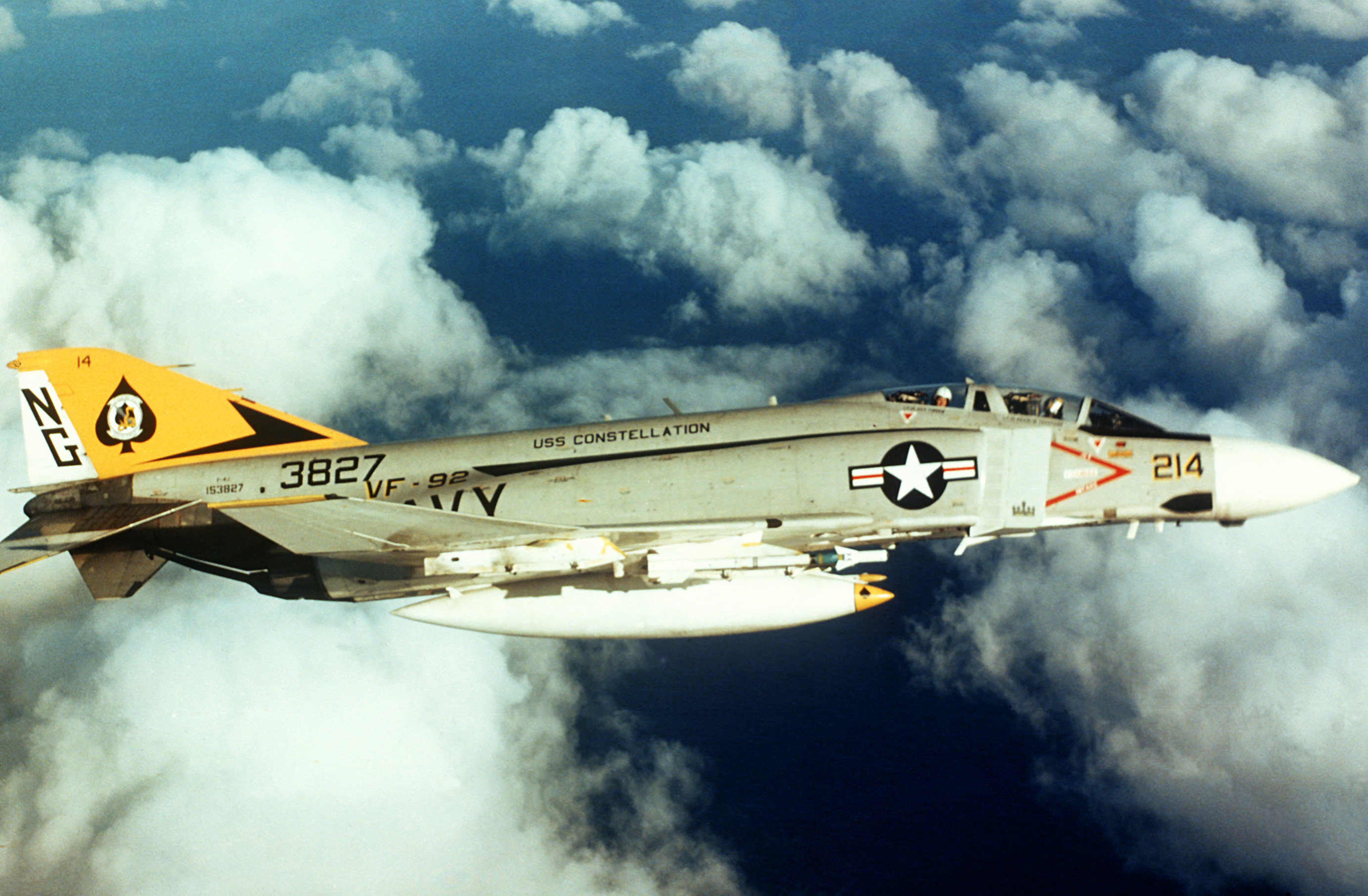 A U.S. Navy of McDonnell Douglas F-4J Phantom II aircraft (BuNo 153872) of Fighter Squadron 92 (VF-92) "Silver Kings" in flight. The aircraft is armed with an AIM-9B Sidewinder missile. VF-92 was assigned to Attack Carrier Air Wing 9 (CVW-9) aboard the aircraft carrier USS Constellation (CVA-64) for a deployment to Vietnam from 5 January to 11 October 1973. Note: The date given (29 January 1995) has to be incorrect as VF-92 was disestablished on 12 December 1975.